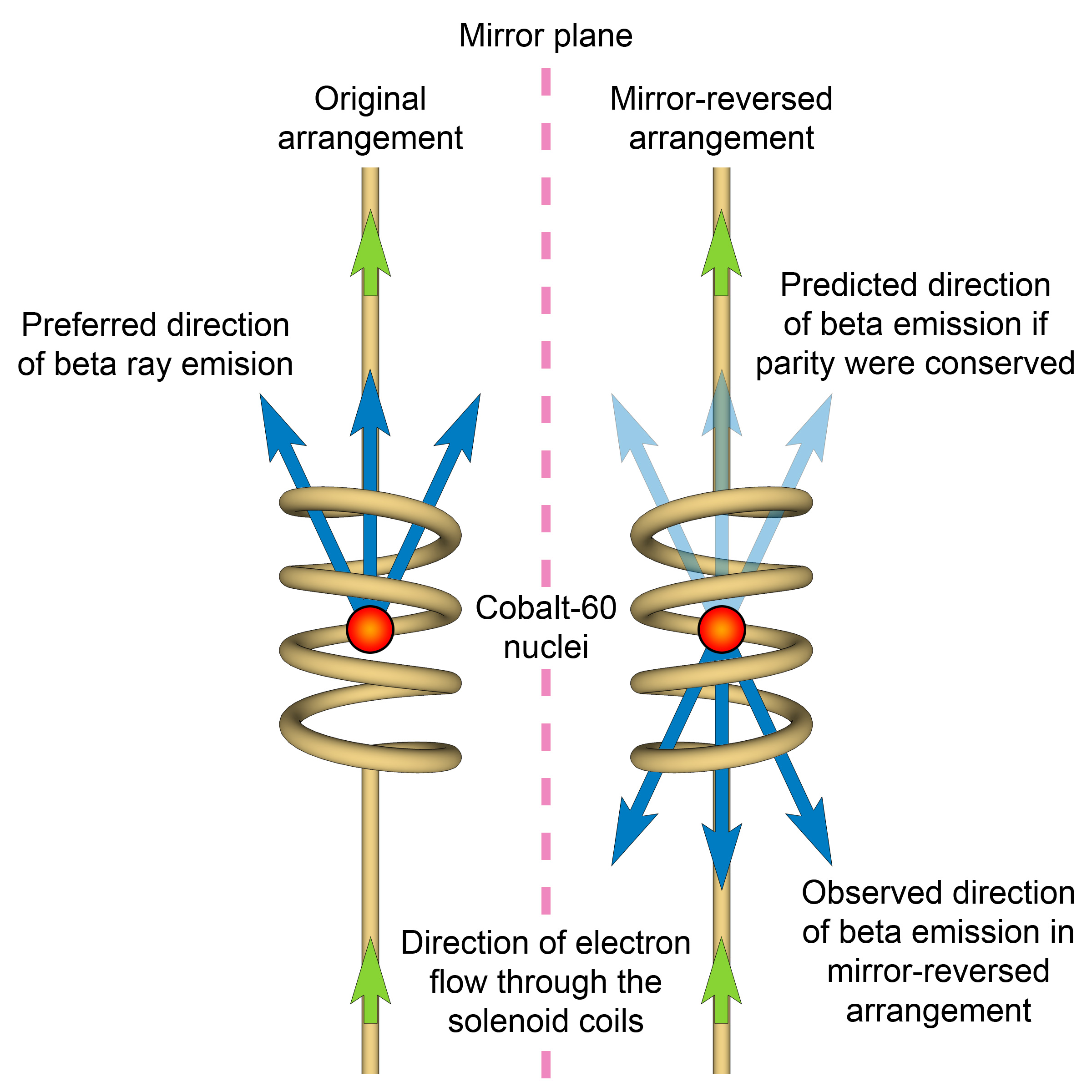 Principle of Wu experiment 1956 to detect parity violation in nuclear beta decay. The result of this experiment was one of the most startlingly unexpected in all of physics, proving that the current world would not behave identically with its mirror image (the only difference being that left and right would be reversed). Few experiments in physics have had greater impact.